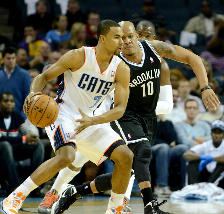 Charlotte Bobcats' Ramon Sessions is guarded by Brooklyn Nets' Keith Bogans.